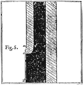 own copy of 1794 print